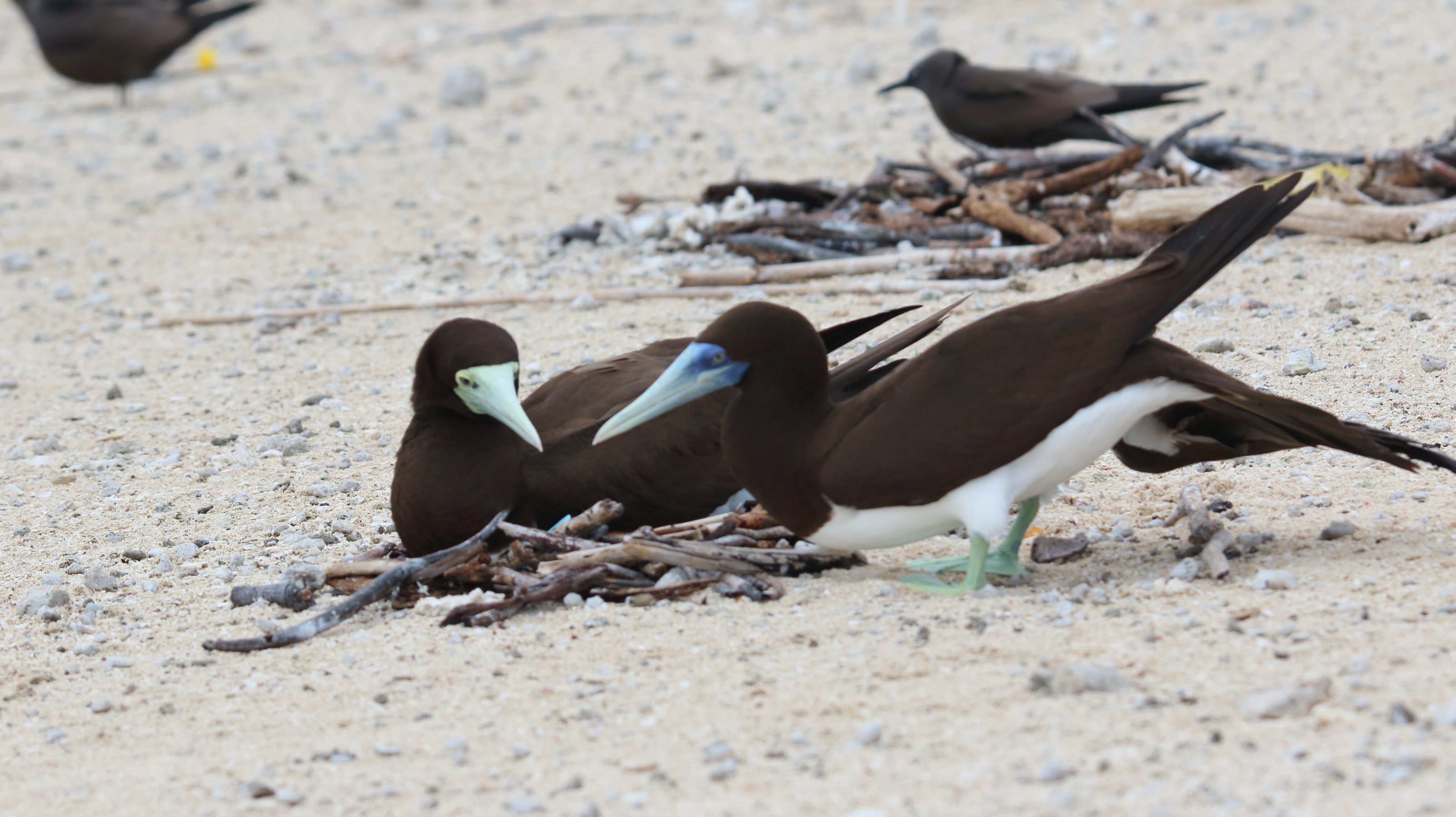 A pair of breeding Brown boobies (female left and male right) at their stick nest on a beach in Australia